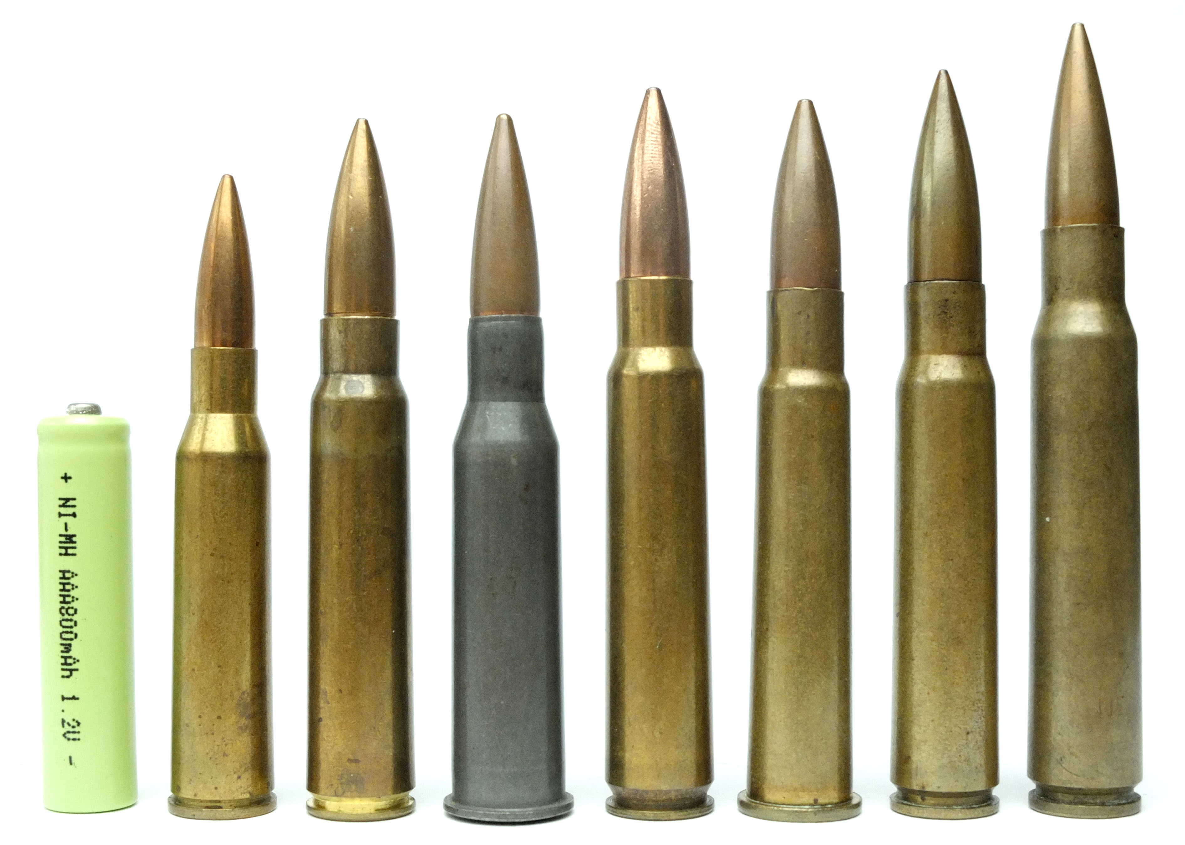 Cartridges Comparison 6.5x50mm, 6.65x53mm, 7.62x54mmR, 7.7x58mm, .303 British, 7.92x57mm and .30-06